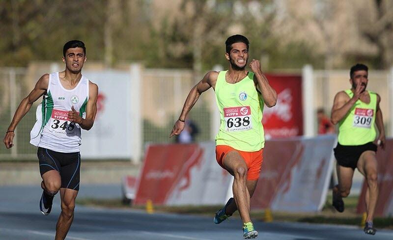 تیم دومیدانی استقلال تهران در سال 1397